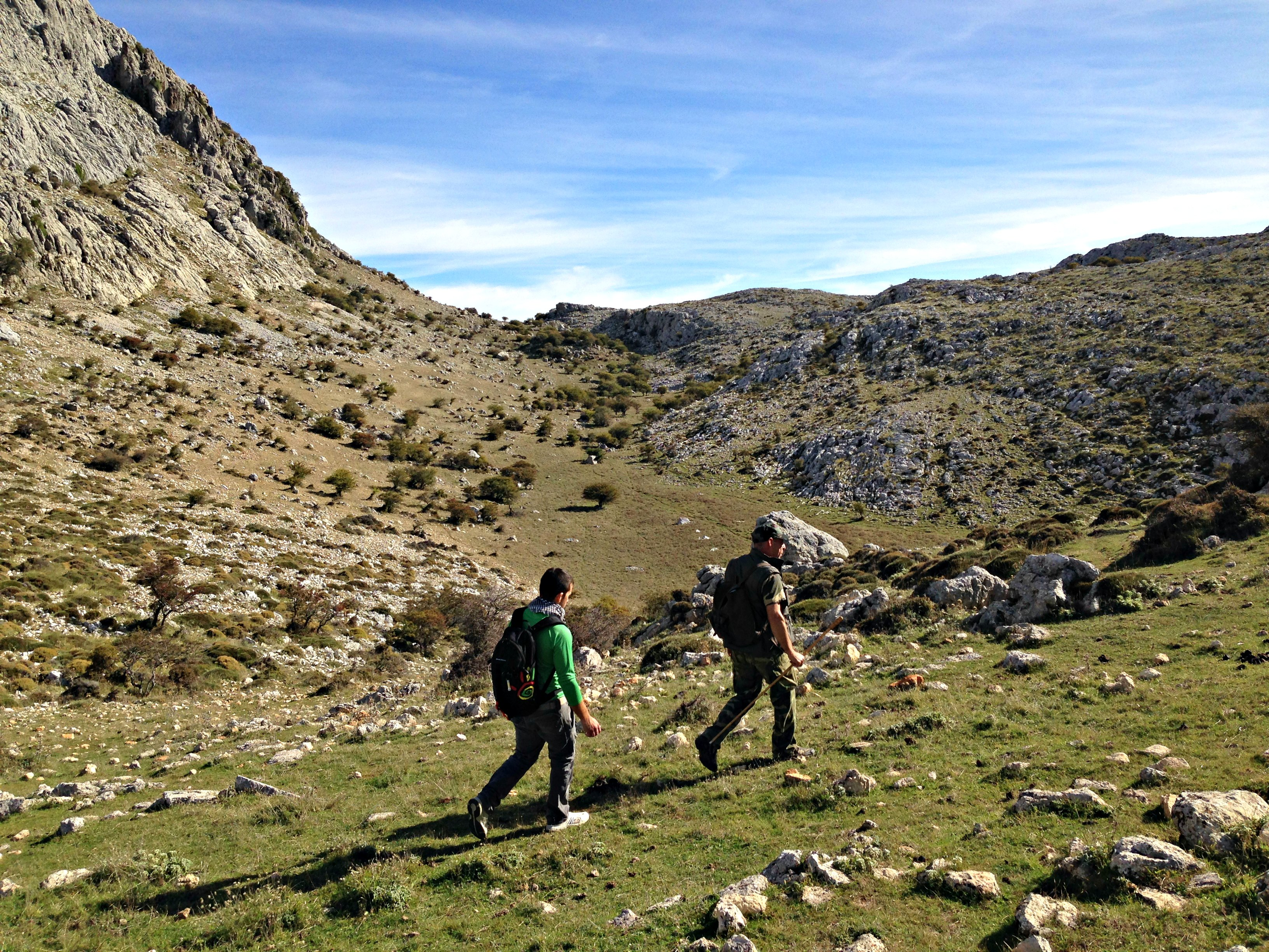 Ruta de senderismo